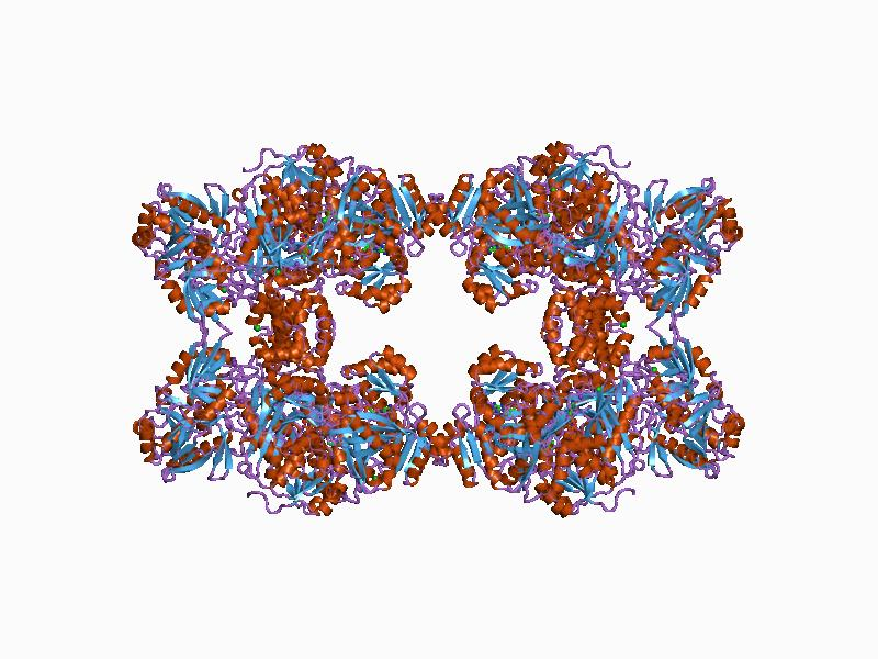 Cartoon representation of the molecular structure of protein registered with 1bxr code.